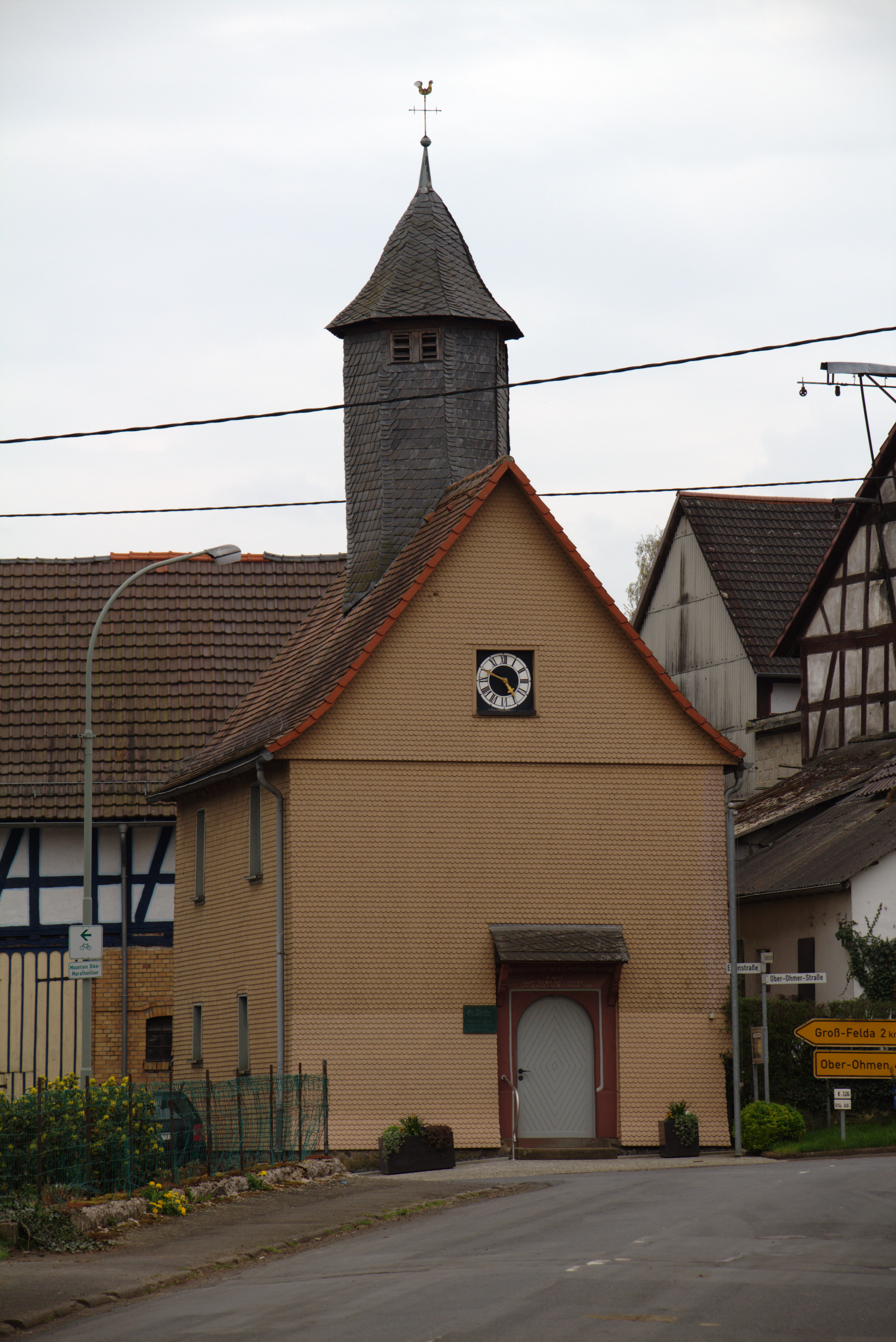 Protestant Church (Half-timbered) in Zeilbach Erlenstrasse, Feldatal, Hesse, Germany